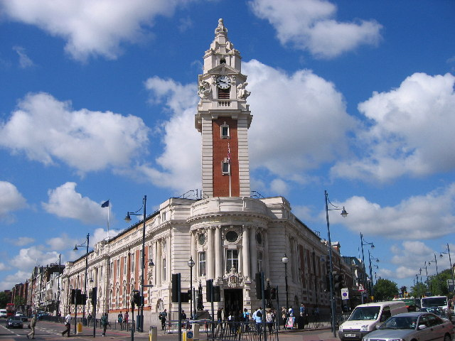 Brixton Town Hall, London. The foundation stone was laid on the 21st July 1906, and the building was officially opened by King George V and Queen Mary (then Prince and Princess of Wales) on the 29th April, 1908.